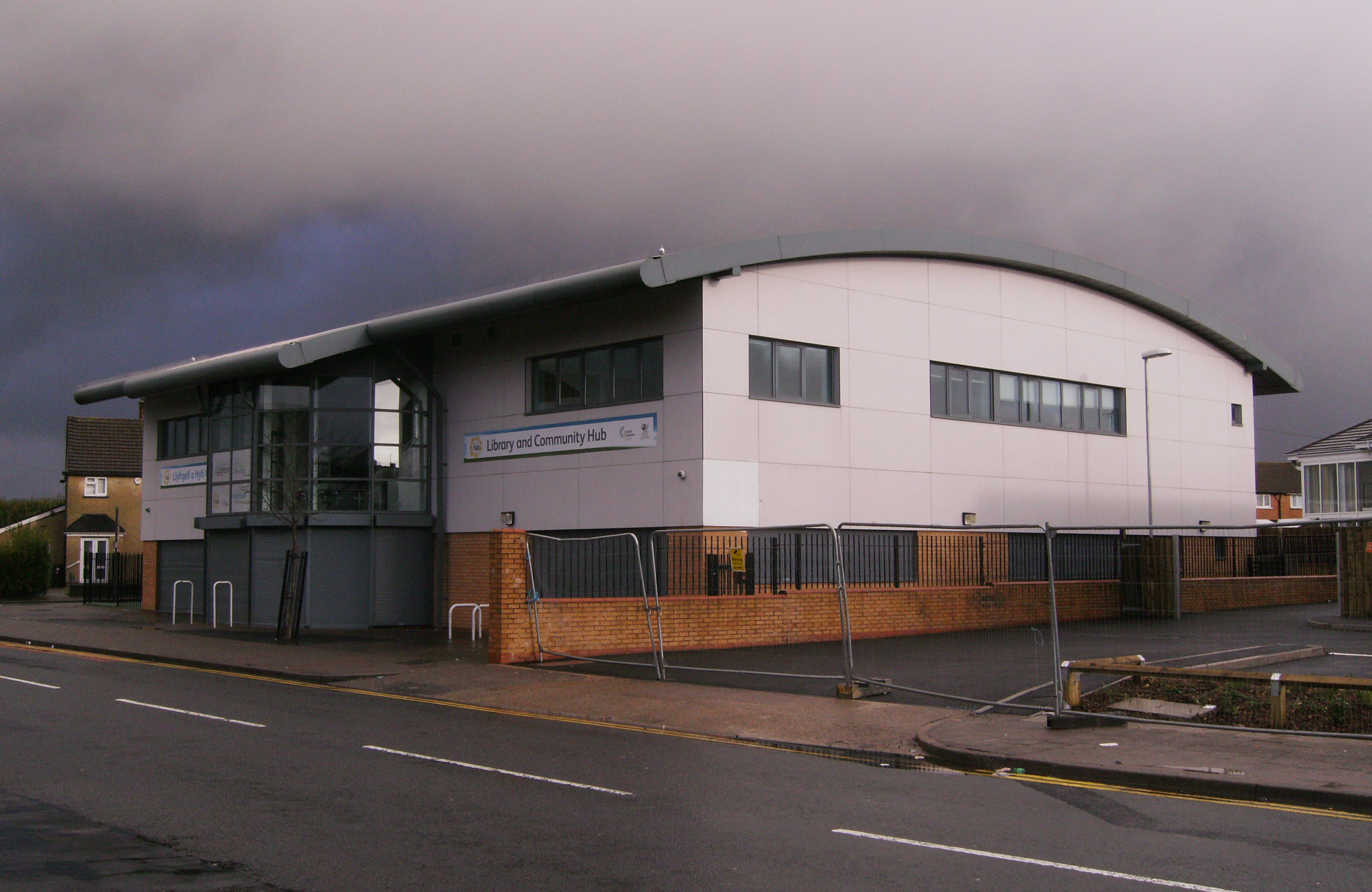 St Mellond Library and Community Hub, Cardiff, Wales